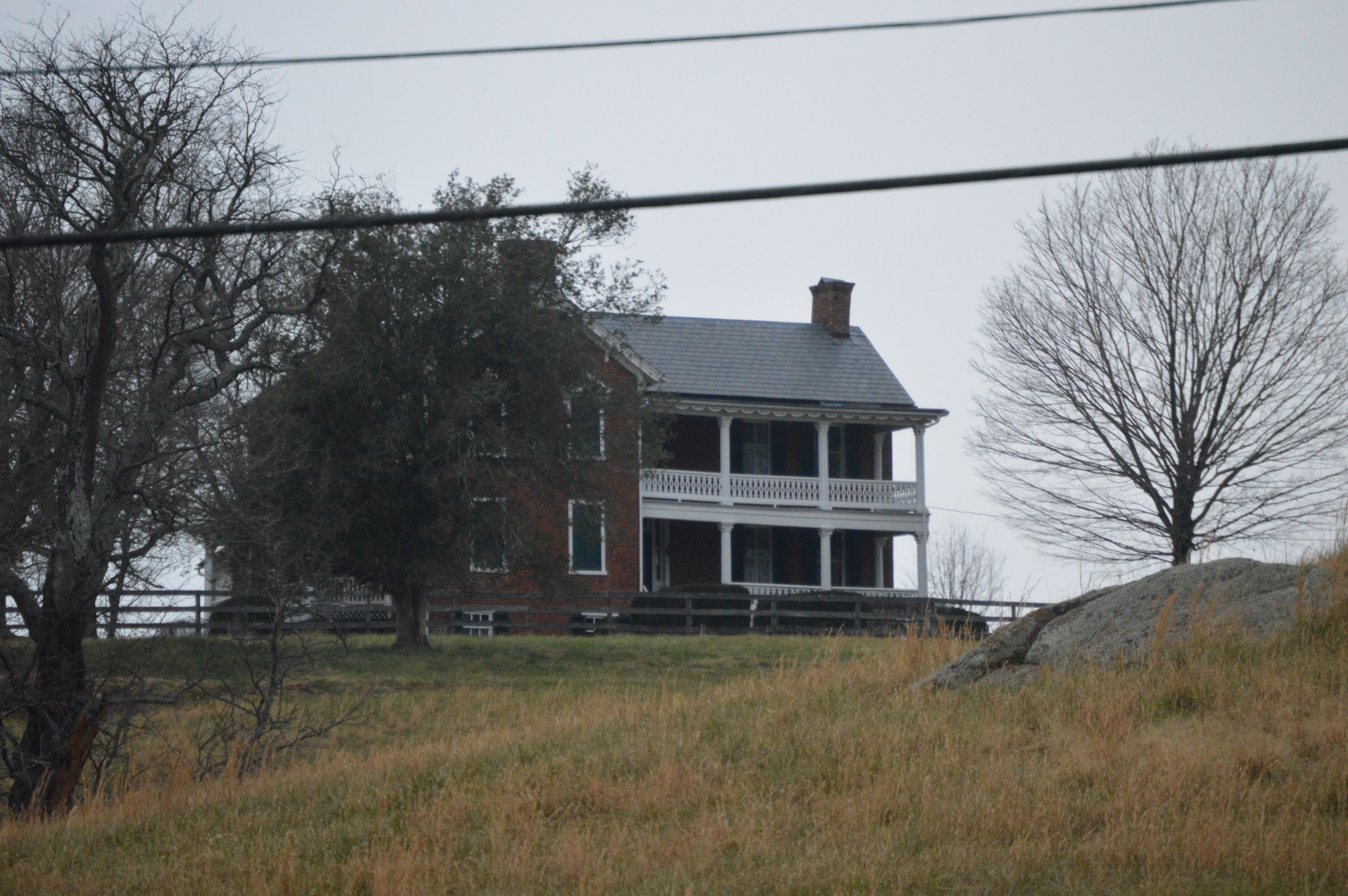 Roadside view of The Anchorage, located off U.S. Route 29 southwest of Charlottesville in Albemarle County, Virginia, United States. Built in 1825, it is listed on the National Register of Historic Places.